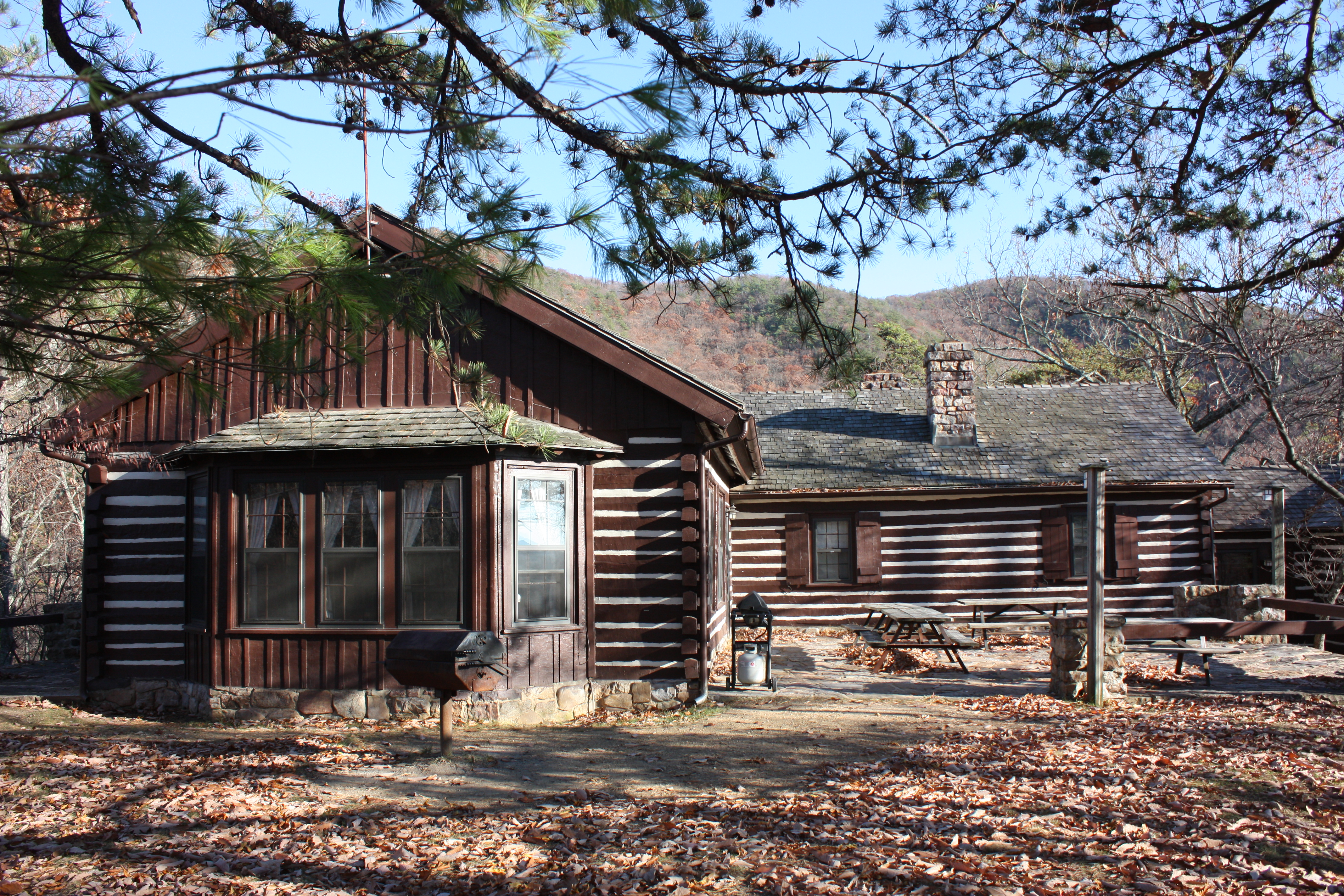 Douthat State Park Lodge. View of the back of the lodge.